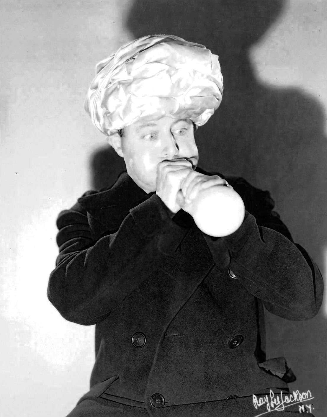 Photo of comedian Joe Cook from an appearance on the radio program Shell Chateau.